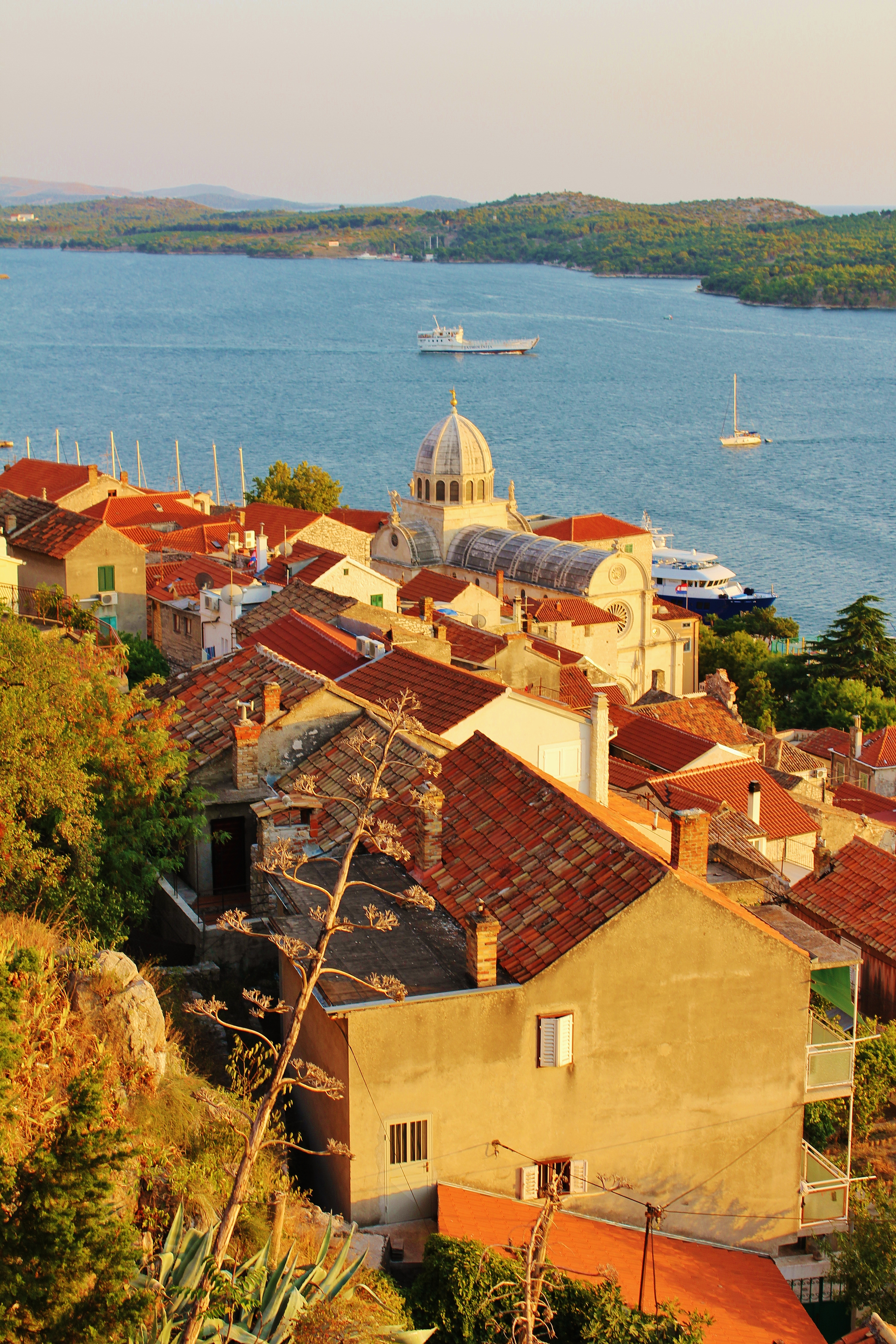 Šibenik (Croatia)